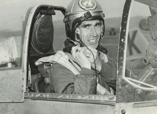 Dean E. Hess in the cockpit of his F-51D, which is named Per Fidem Volo from his P-47 in World War Second, wearing the U.S. Navy style helmet. Despite date this picture taken isn't predominantly, his autobiographic writing indicate it late March 1951 through Battle Hymn, 1957. the Daejeon Airstrip became park around Daejeon Cityhall in 1985.